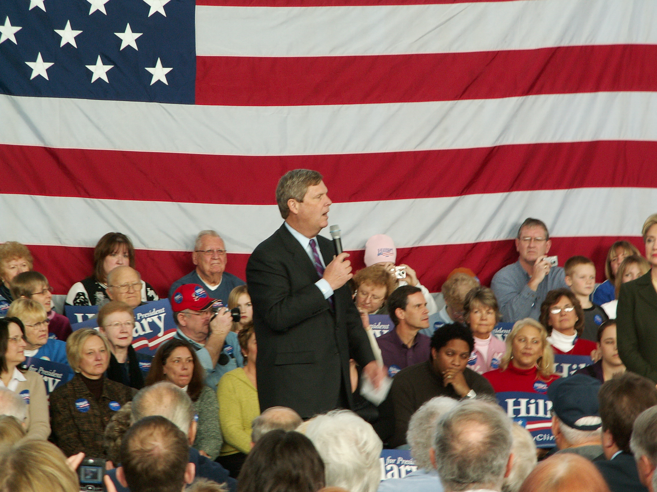 Tom Vilsack takes the mic to talk about Hillary Clinton during a Jan. 2, 2008 event in Cedar Rapids. See complete caucus coverage